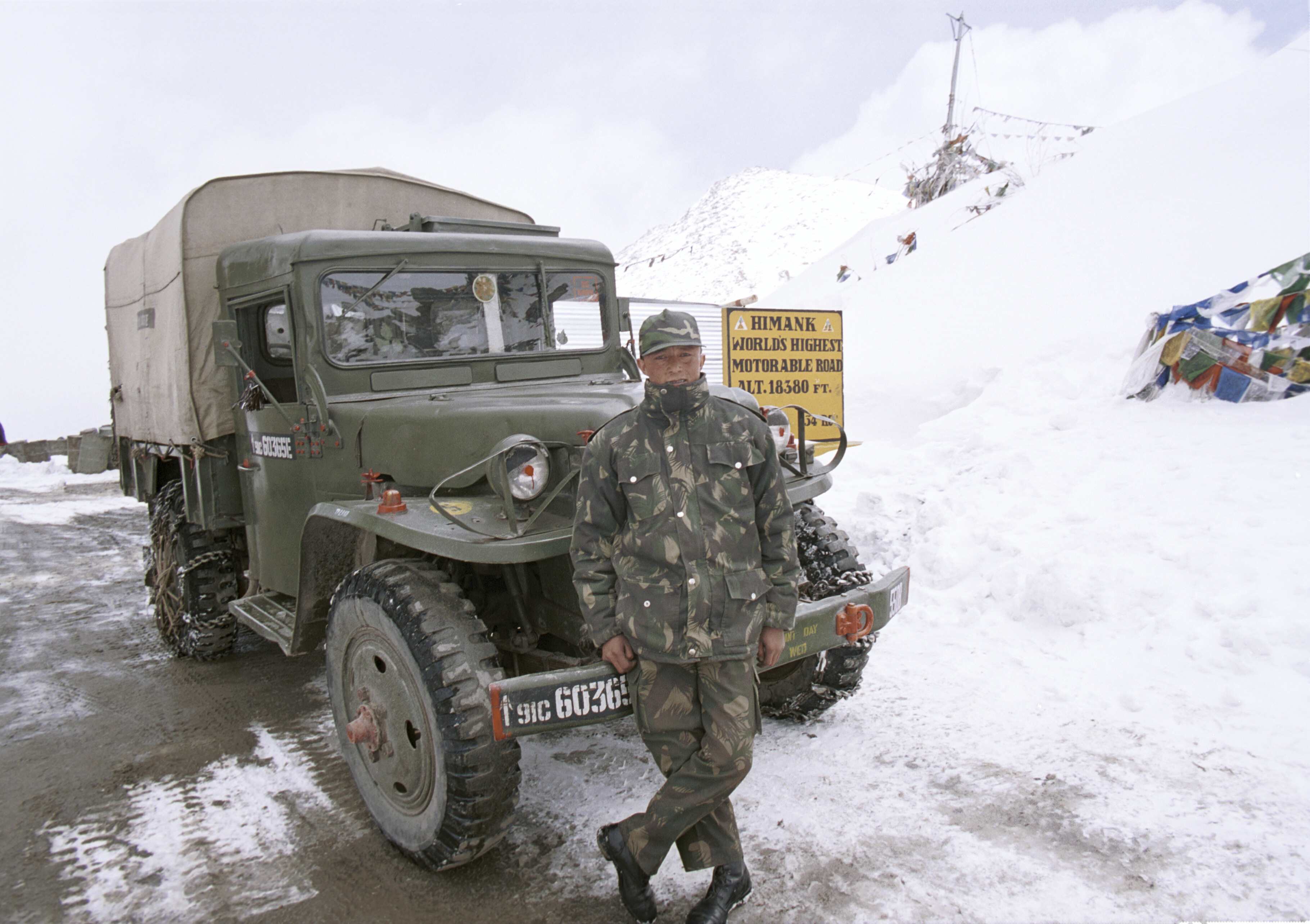 Khardung La in ladakh. The highest motorable road.